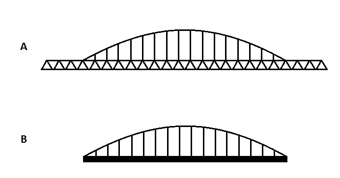 Two variants of the Langer bridge type, a sort of arch bridge